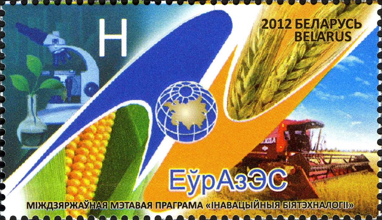 Stamp of Belarus